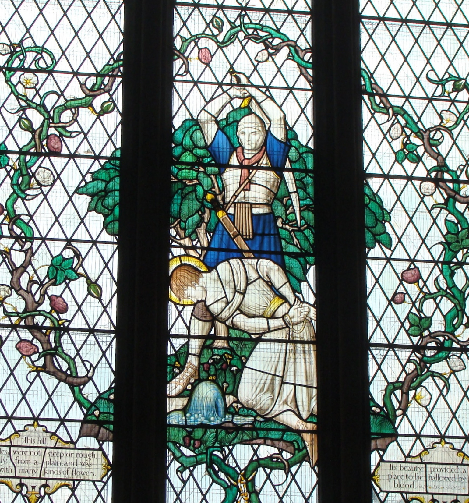 Stained glass at St Albans' Cathedral showing the execution of the martyr.